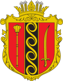 Coat of Arms Illinec Rajon Vinnitsa Oblast Ukraine